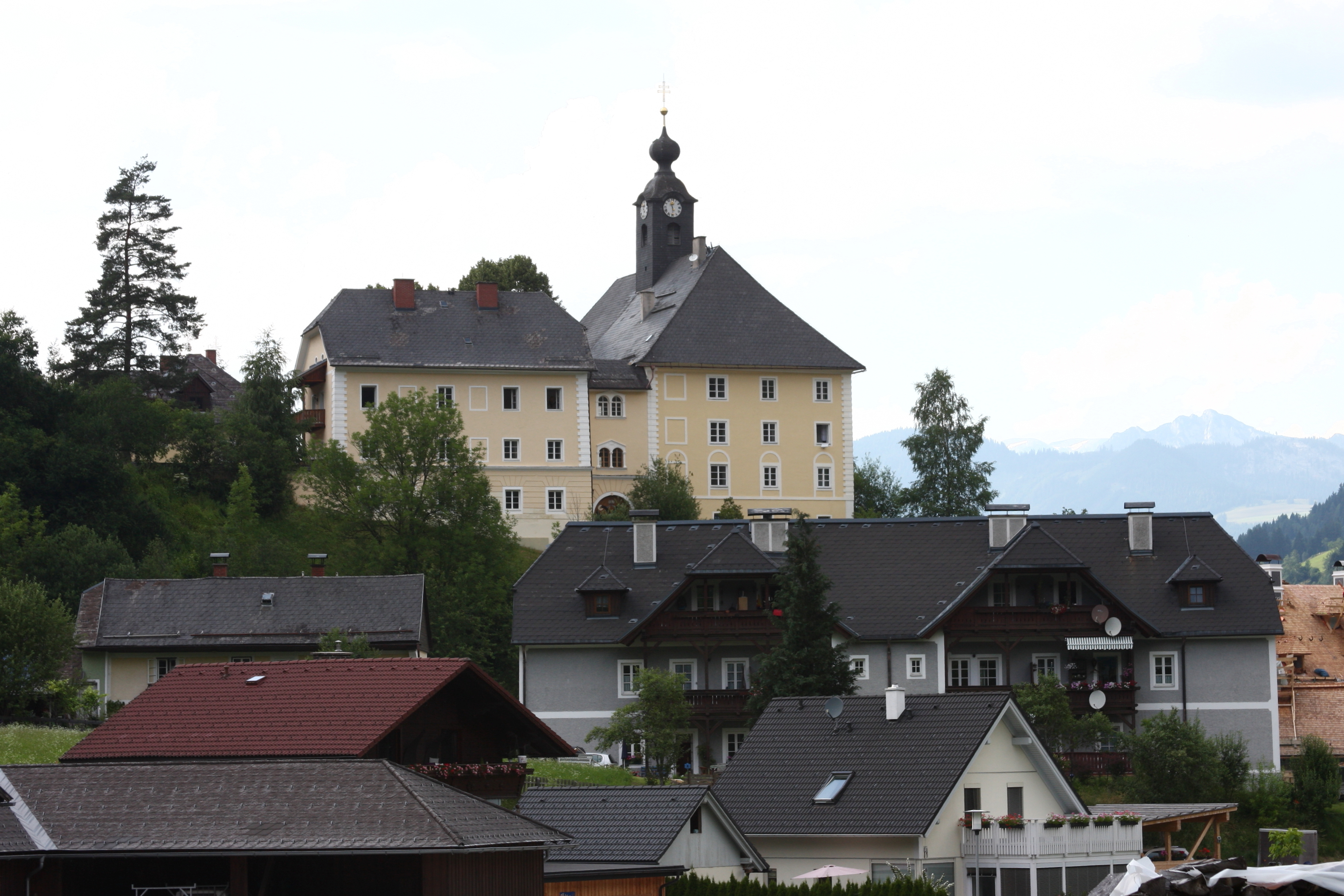 Castle and parishchurch Donnersbach, Styria, Austria